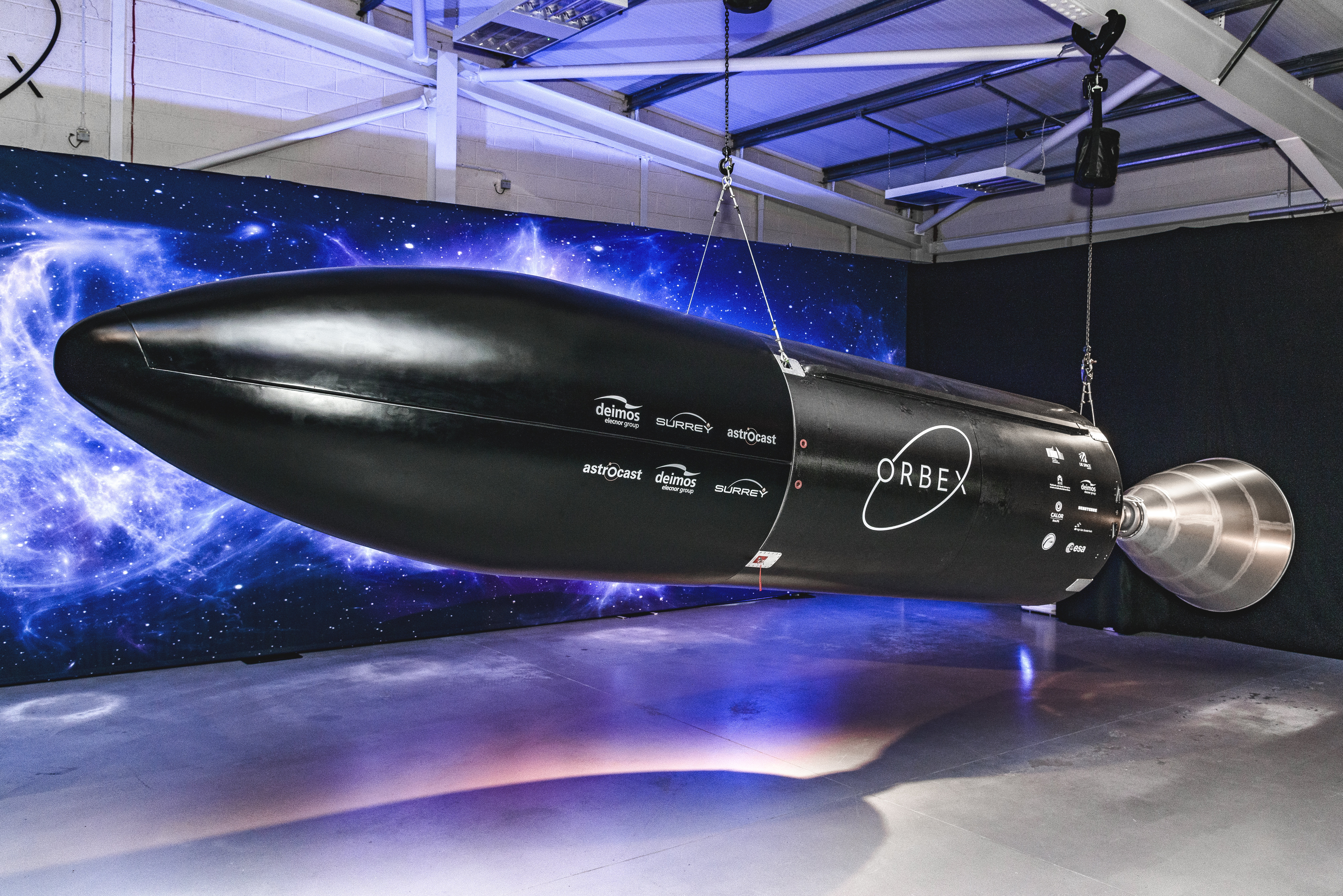 Second stage engineering prototype of the Prime orbital rocket, exhibited at the Orbex headquarters at Forres, Scotland